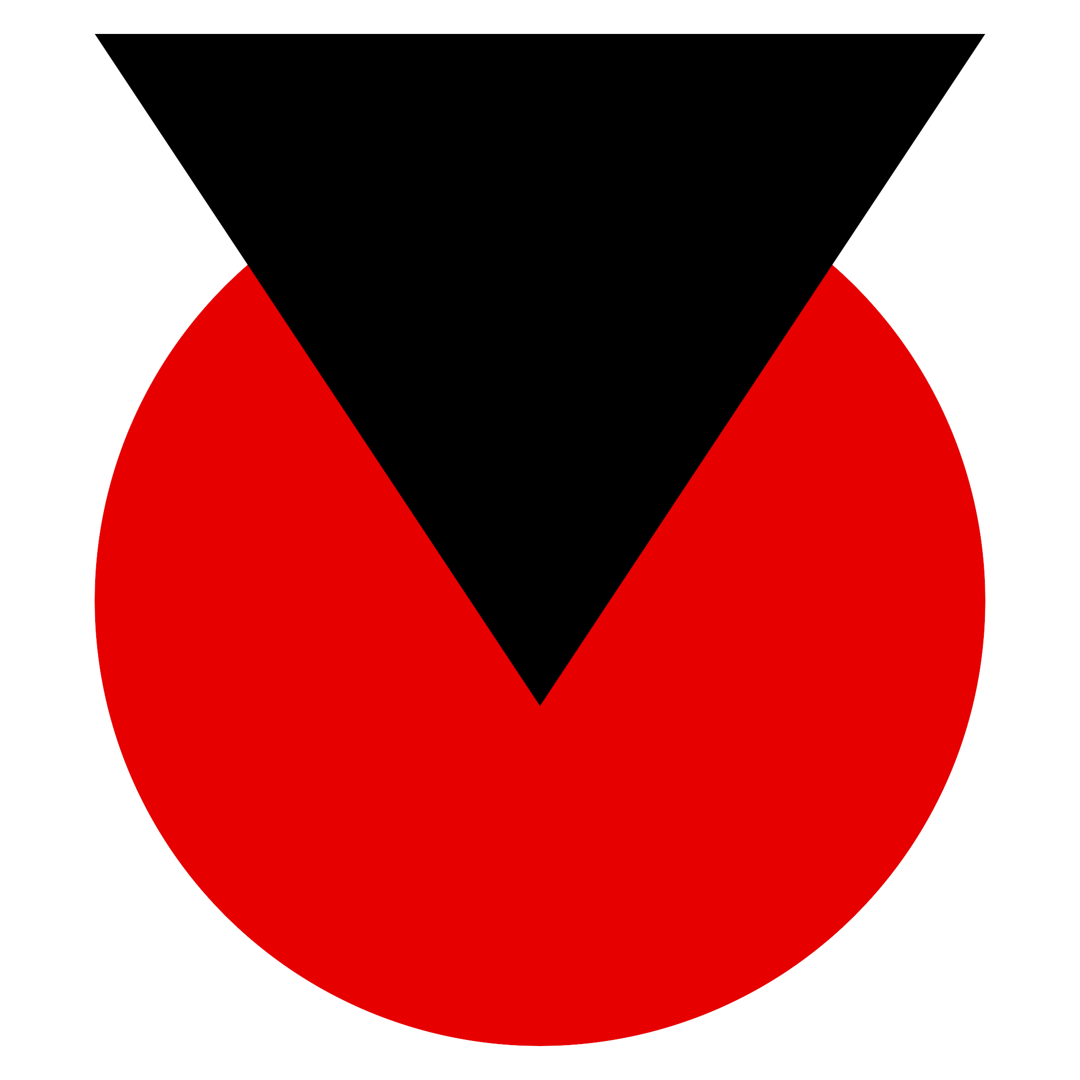 A symbol of a black triangle intersecting a red circle to represent butch/femme sexuality, which was first used at the beginning of the 21st century on the website